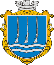 Svitlovodsk, city in Kirovograd Oblast Ukraine, coat of arms